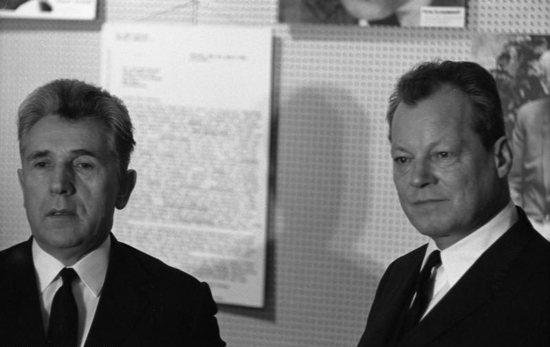 Exilanten-Tagung in Luxemburg Eröffnung der Ausstellung "Exil-Literatur" 17.-18.1.1968 Information added by Wikimedia users.The person left is Luxembourg Foreign minister and Minister for culture Pierre Grégoire.